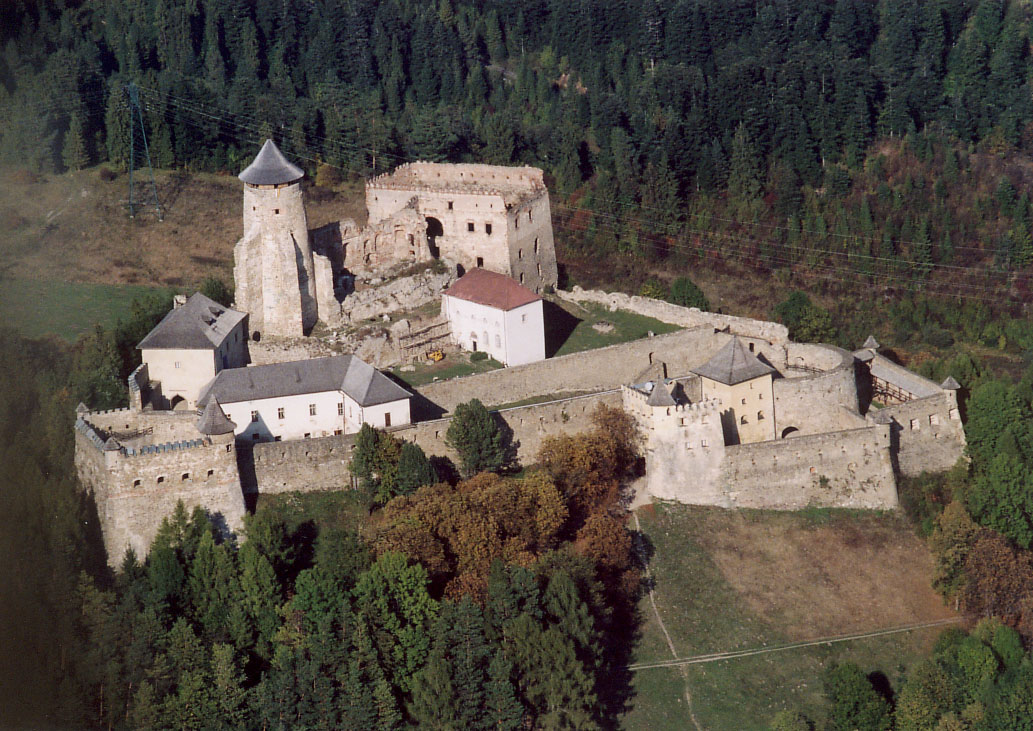 Stará Ľubovňa, Slovakia, castle, aerial photography